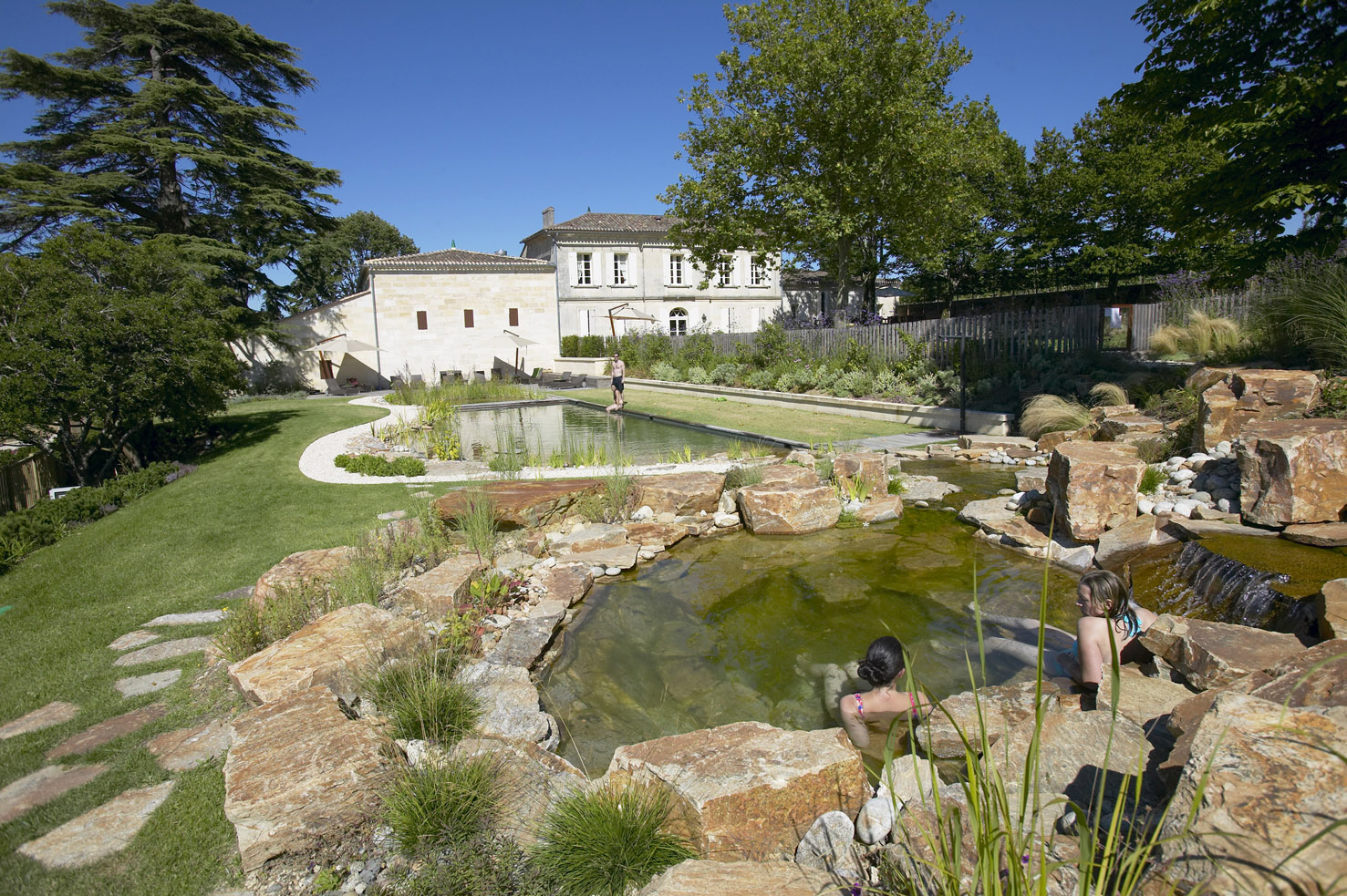 Natural swimming pool at Chateau and Relais de Franc Mayne